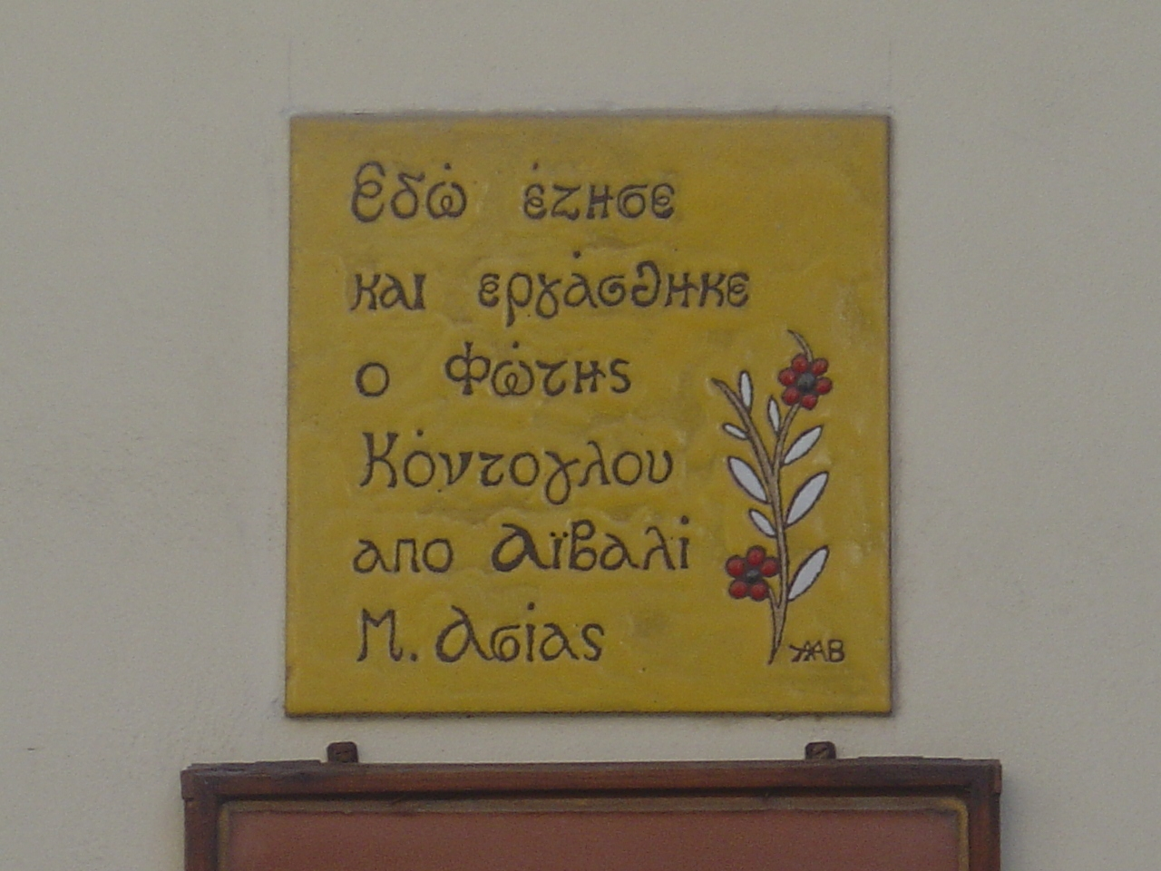 Memorial plaque in greek painter's and writer;s Photios Kontoglou hoyse